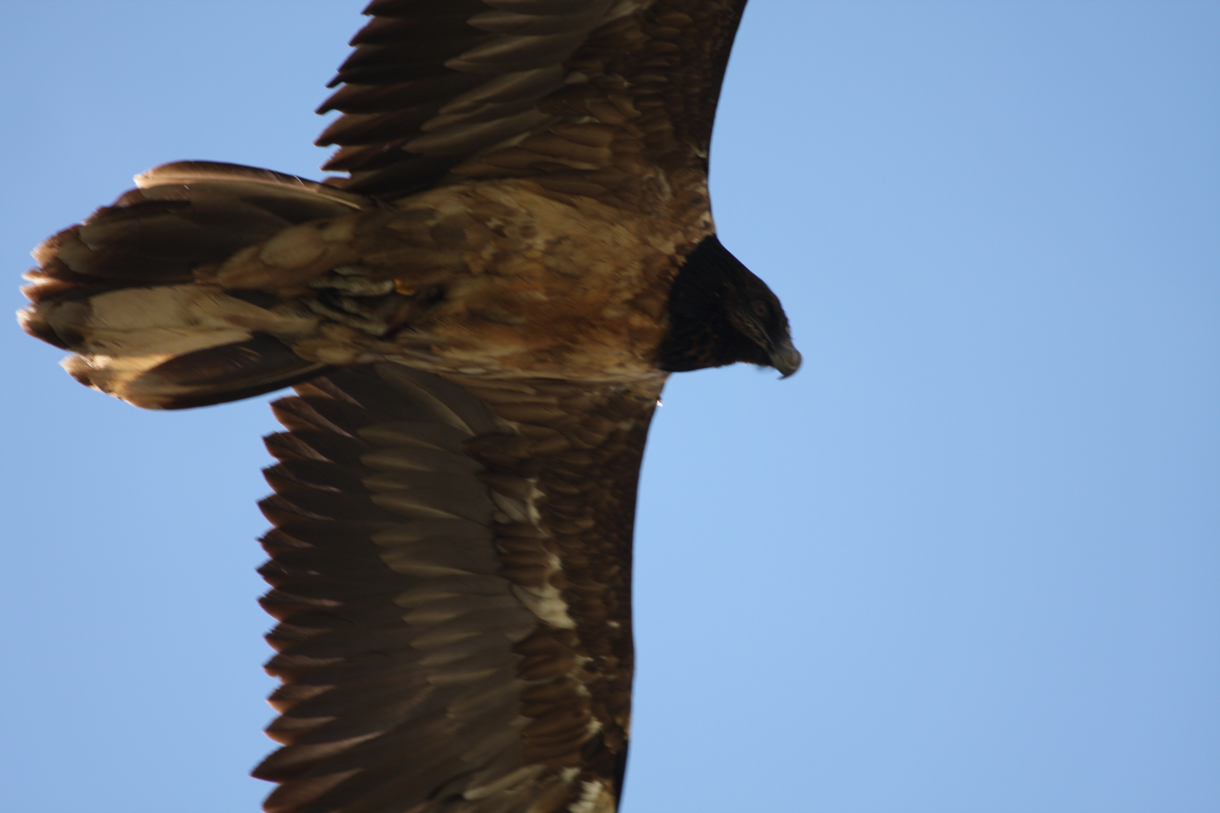 Lammergeier, Niedersachsenhaus, salzburg, Austria